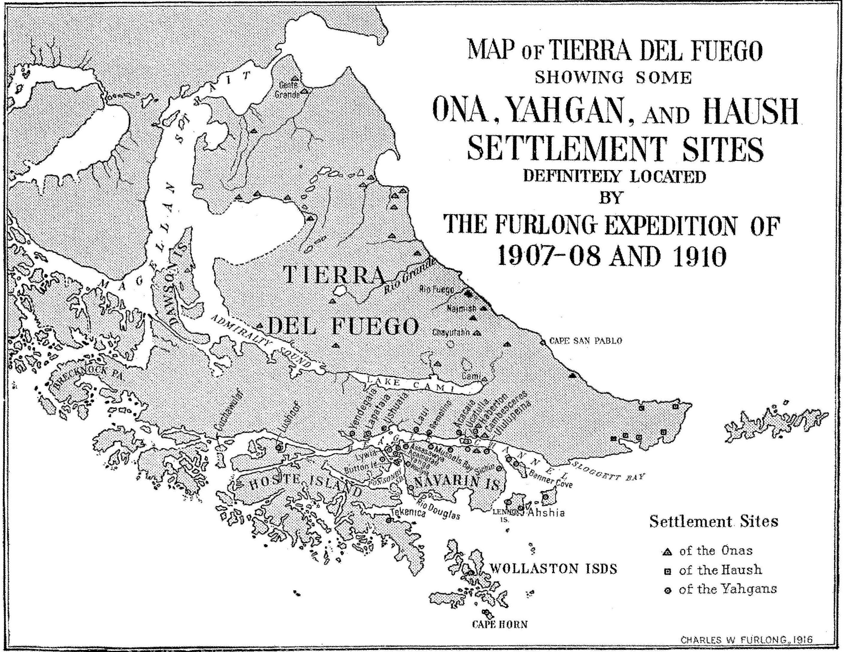 Fig. 4— Map of Tierra del Fuego showing some Ona, Yahgan, and Haush settlement sites. Scale, 1 :4,800,000. Note: The site at Cape San Pablo is an Ona site and should be represented by a triangle. Names have been given to these sites whenever possible. All are aboriginal names except the follow- ing: Gente Grande, Rio Fuego, Haberton, Cambesceres, Banner Cove, Rio Douglas, Mussels Bay, Button Island. The exact location of Lushoof is doubtful. Cuchawulaf is the name applied to the island and probably to its principal camp site. There are many other settlement sites not shown here. Some of those shown have been abandoned. With one or two exceptions these are or have been important settlements, supporting a fluctuating population, varying from a few families to perhaps over three hundred in case of the Yahgans, to perhaps one hundred in case of the Onas, but usually only small groups in the case of the Haush. Note the center of Yahgan population in Yahga and vicinity.